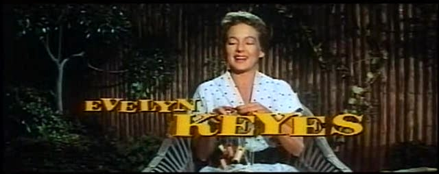 Evelyn Keyes introduced in the theatrical trailer of the 1955 film The Seven Year Itch directed by Billy Wilder.